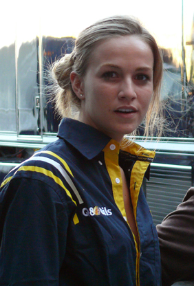 Carmen Jordá in 2009